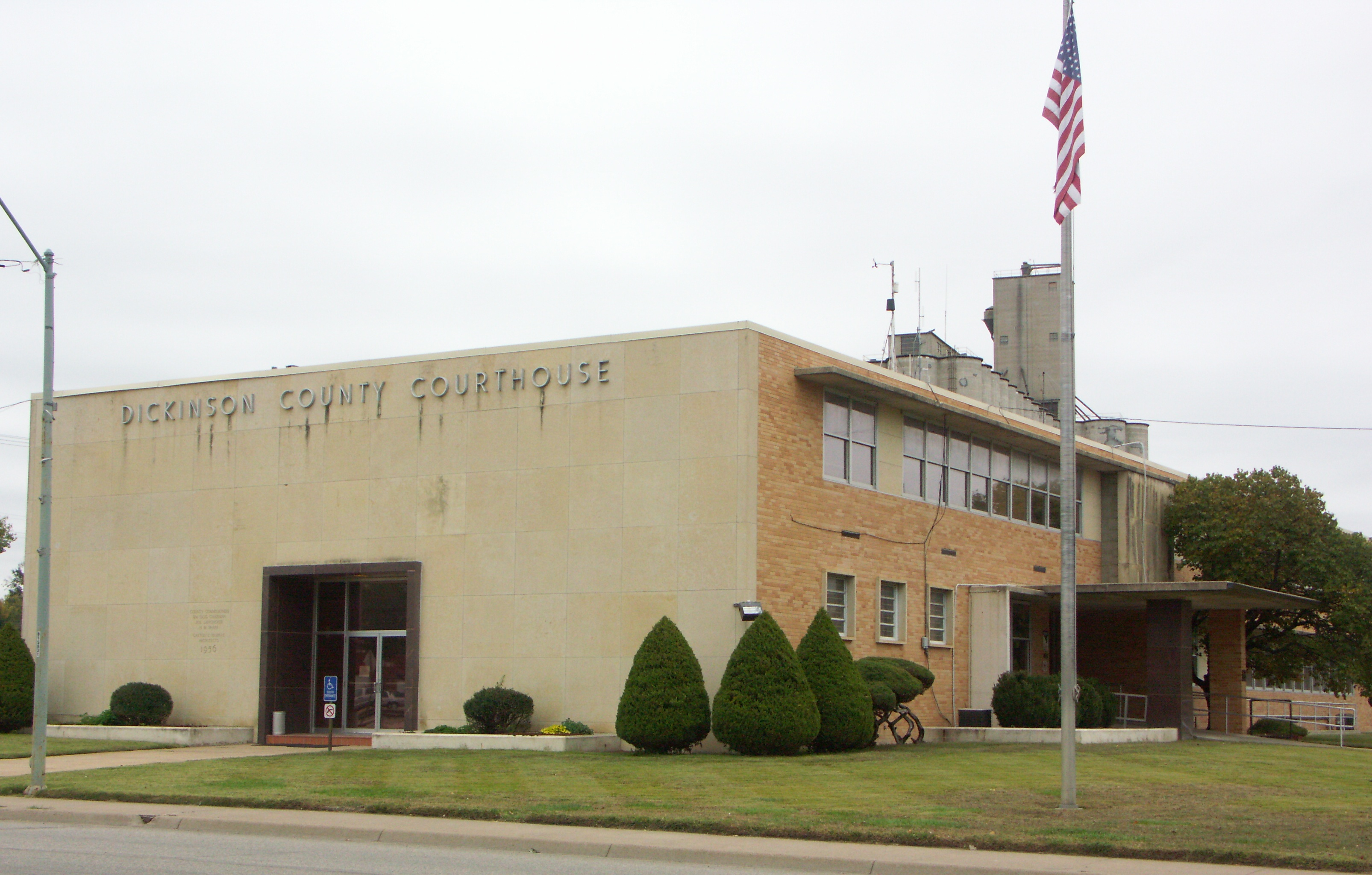 Dickinson County Court House, Abilene, Kansas, USA